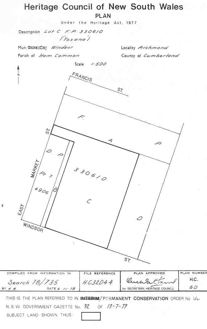 Toxana: PCO Plan Number 014